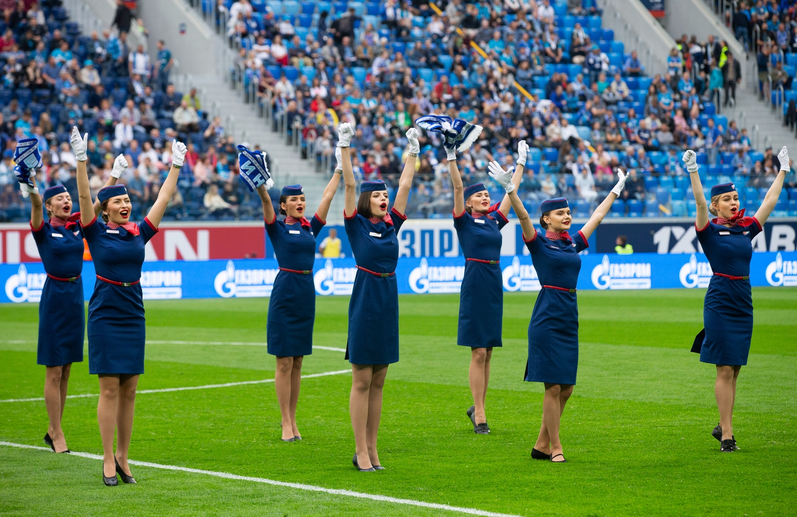 14.07.2019.Russia, Saint Petersburg, Gazprom Arena, Zenit-Tambov. Pre-game instructions from flight attendants of Rossiya Airlines before the game "Zenit"-"Tambov"